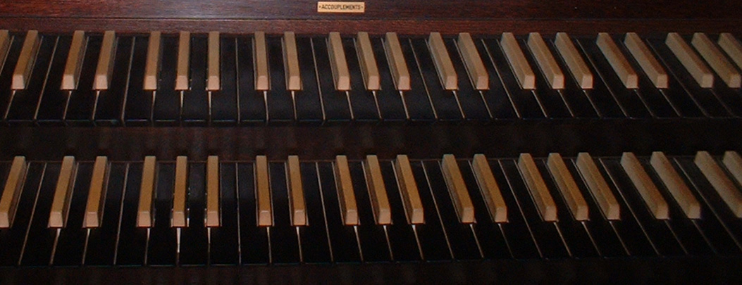 Wood organ keyboards (ebony tones and maple semitones)